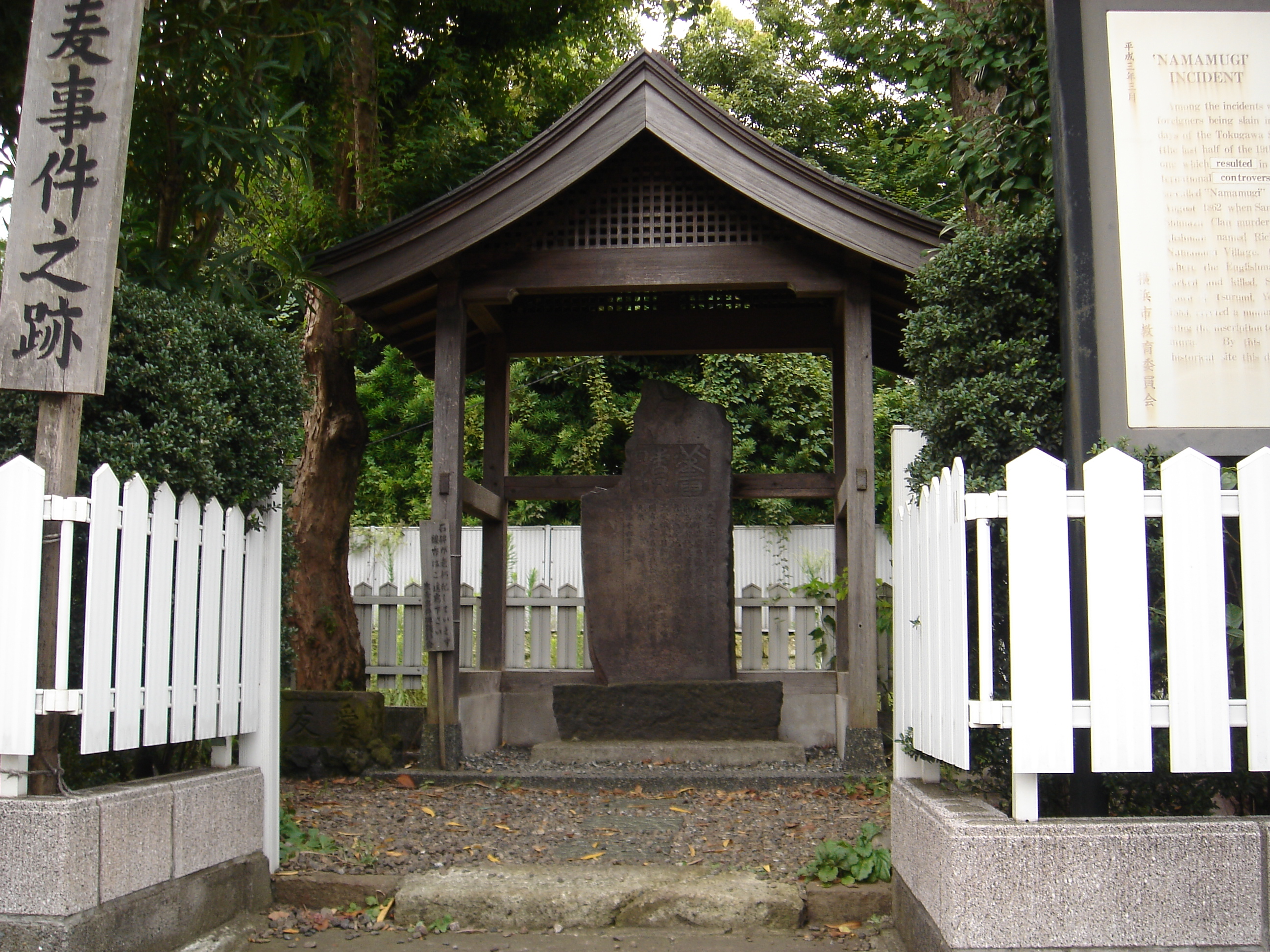 Historical monument of Namamugi jiken (Namamugi Incident) Yokohama. Japan